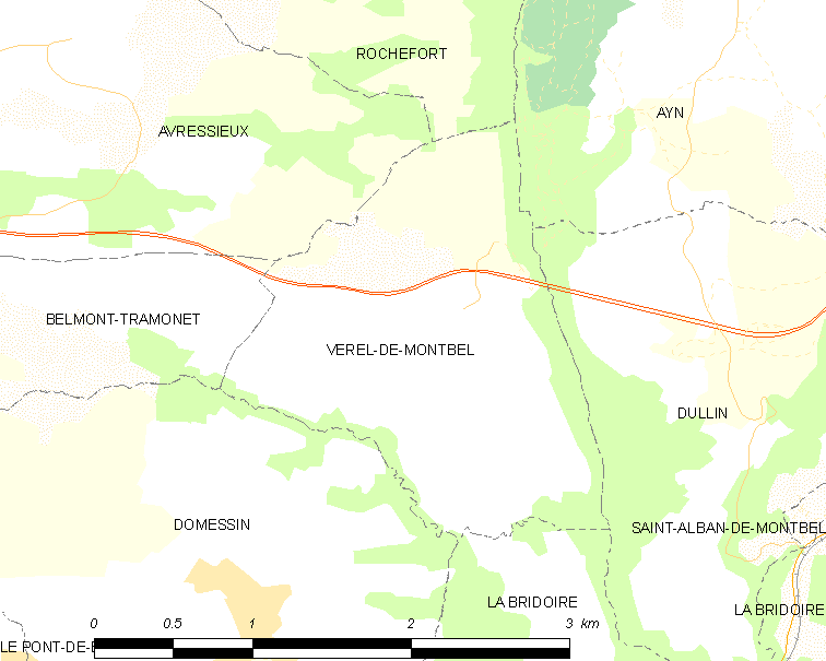 Map of French municipality Verel-de-Montbel